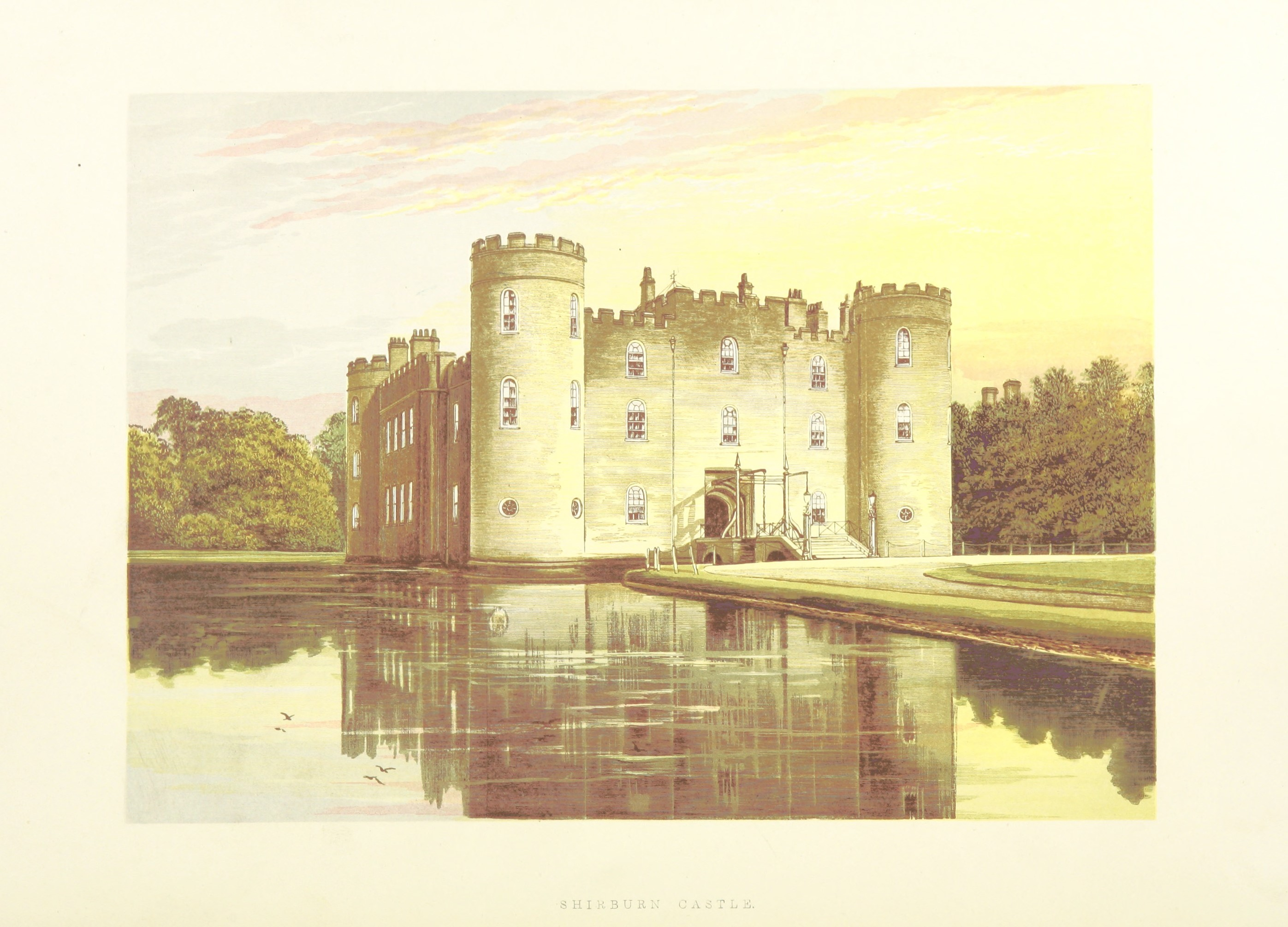 Shirburn Castle.